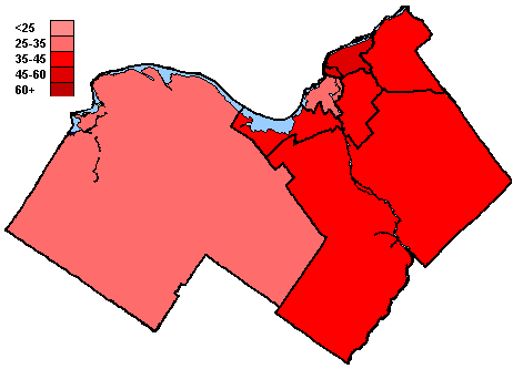 Map made by uploader (User:Earl Andrew); see [1] (question about source) and [2] (response).